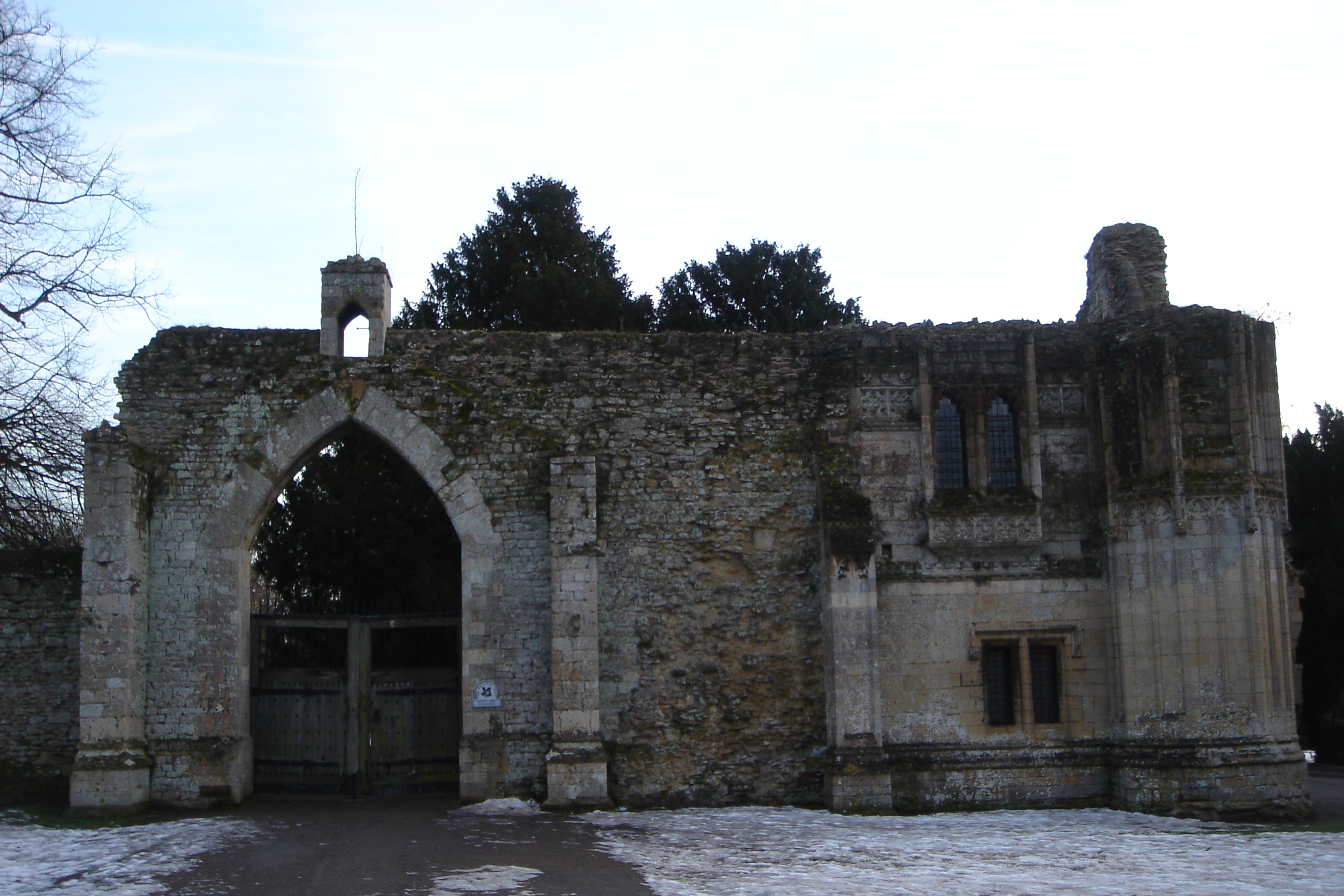 Ramsey Abbey — carved gatehouse with ornate oriel window — XVth century